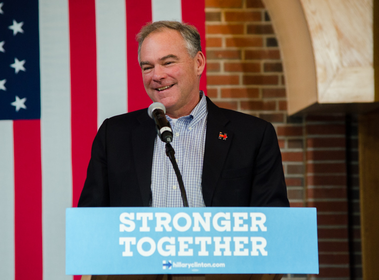 Vice-Presidential candidate Tim Kaine at a Clinton/Kaine rally, St. Anselm College, Manchester, New Hampshire, August 13, 2016.